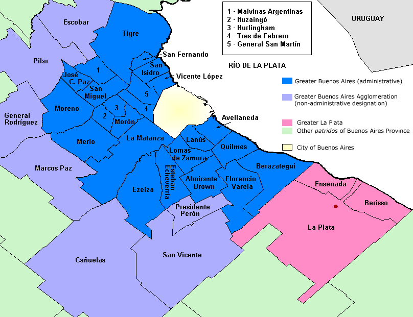 A map of the Great Buenos Aires' partidos with some comments in English. See also the Spanish version: Image:Gran buenos aires.png